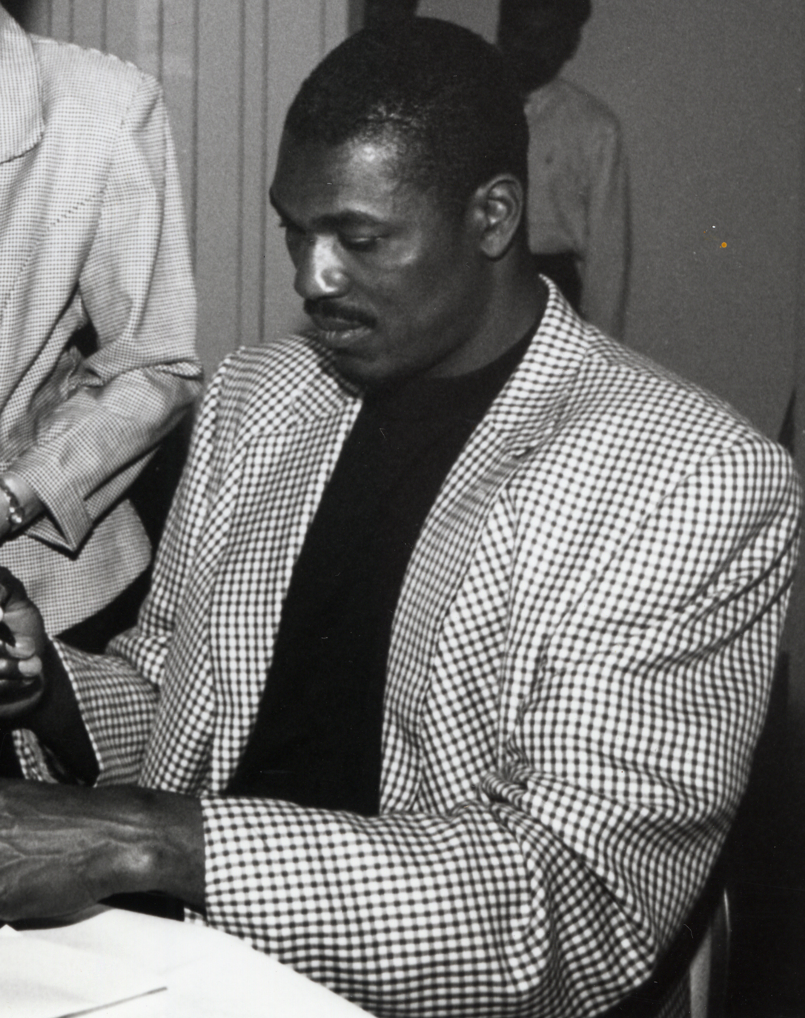 Hakeem Olujuwan signs autographs